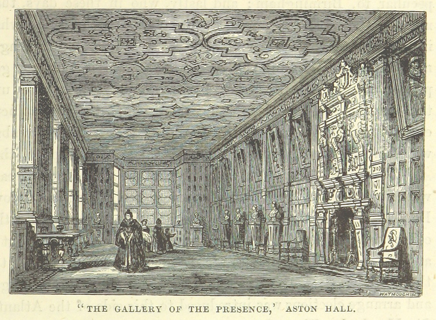 Illustration of the Long Gallery, in Aston Hall, Birmingham.